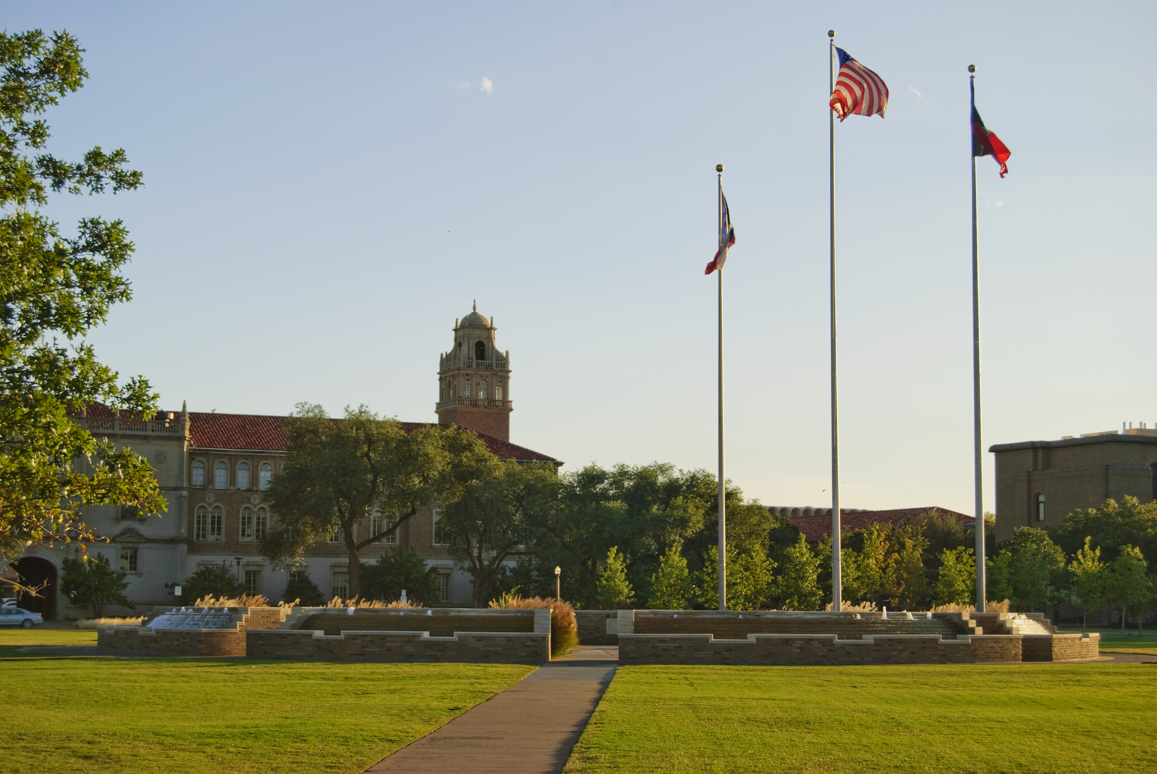 Memorial Circle at Texas Tech University in Lubbock, Texas, United States.